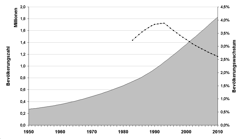 Gambia's population (1950-2010).